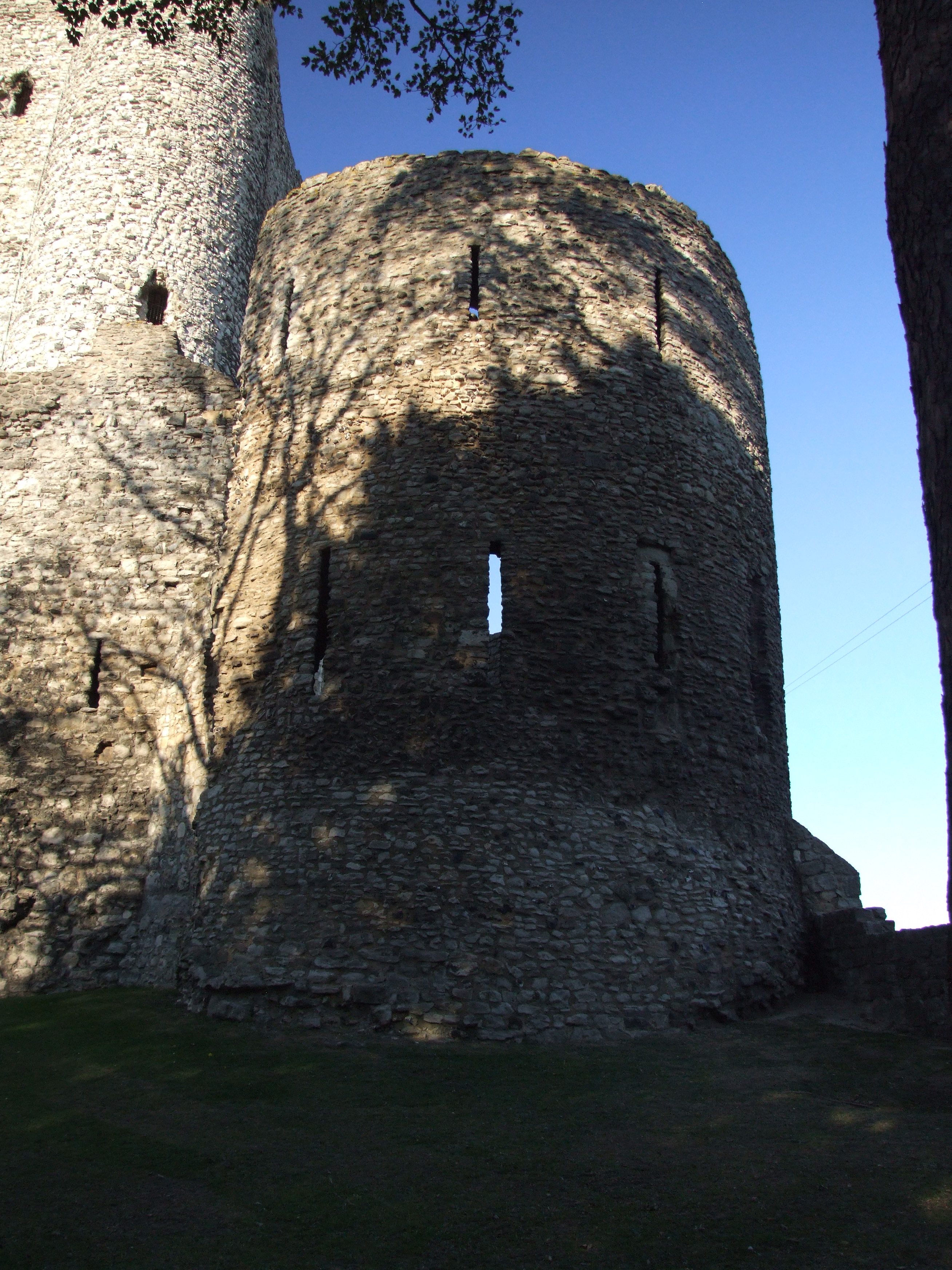 Rochester Castle Clear view of the round rebuilt corner behind curtain wall drum tower.